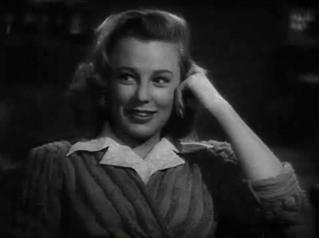 Cropped screenshot of June Allyson from the trailer for the film Her Highness and the Bellboy